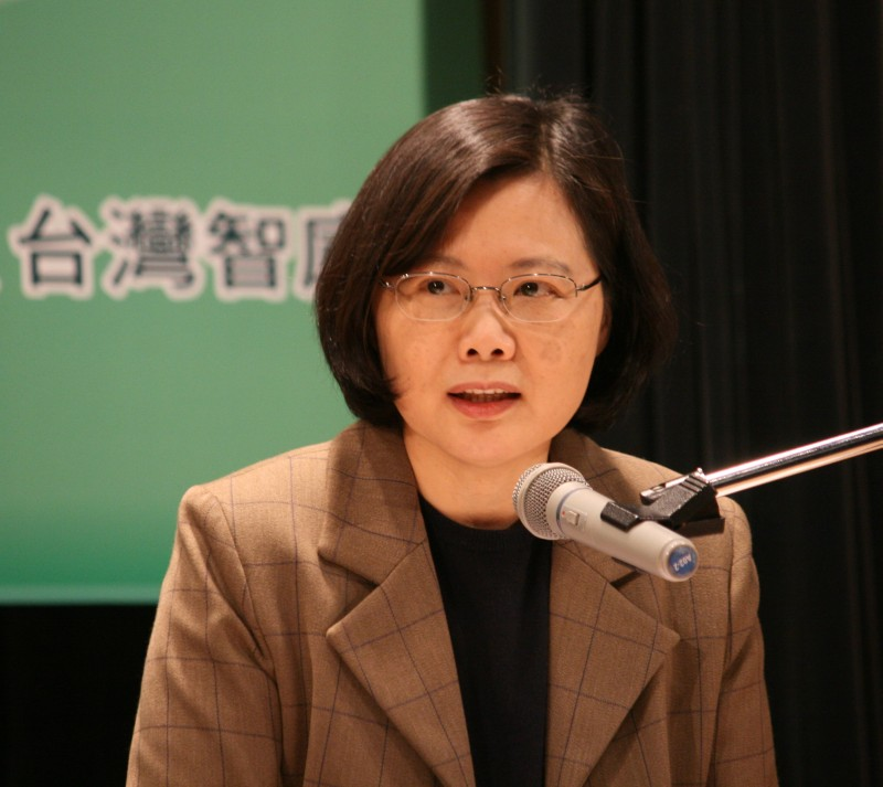 Tsai Ing-wen, the chairperson of Democratic Progressive Party of Taiwan.